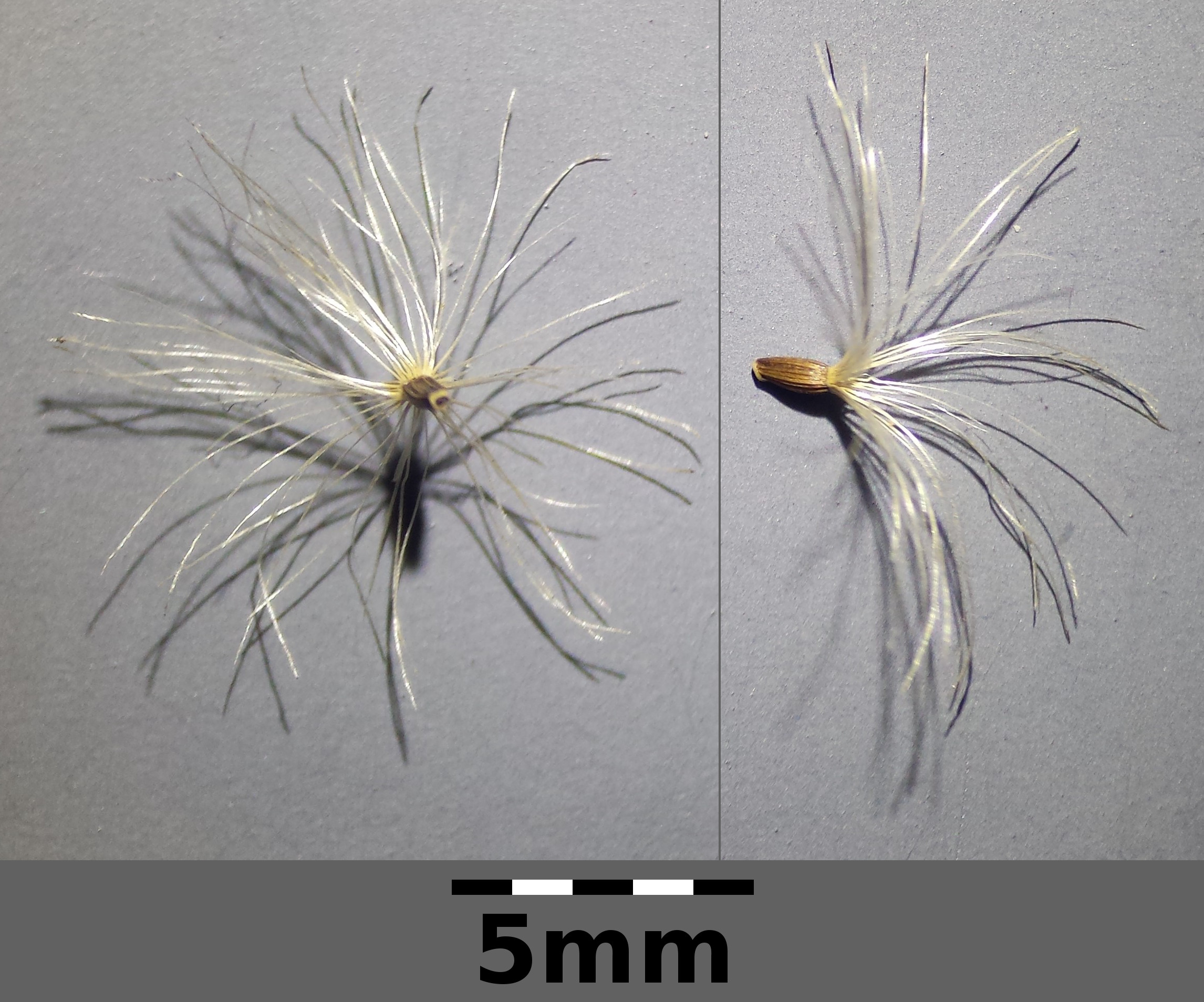 Achenes Taxonym: Inula ensifolia ss Fischer et al. EfÖLS 2008 ISBN 978-3-85474-187-9 Location: Alte Schanzen, object XII, Floridsdorf, Vienna - ca. 225 m a.s.l. (leg. 2014-09-19) Habitat: dry grassland